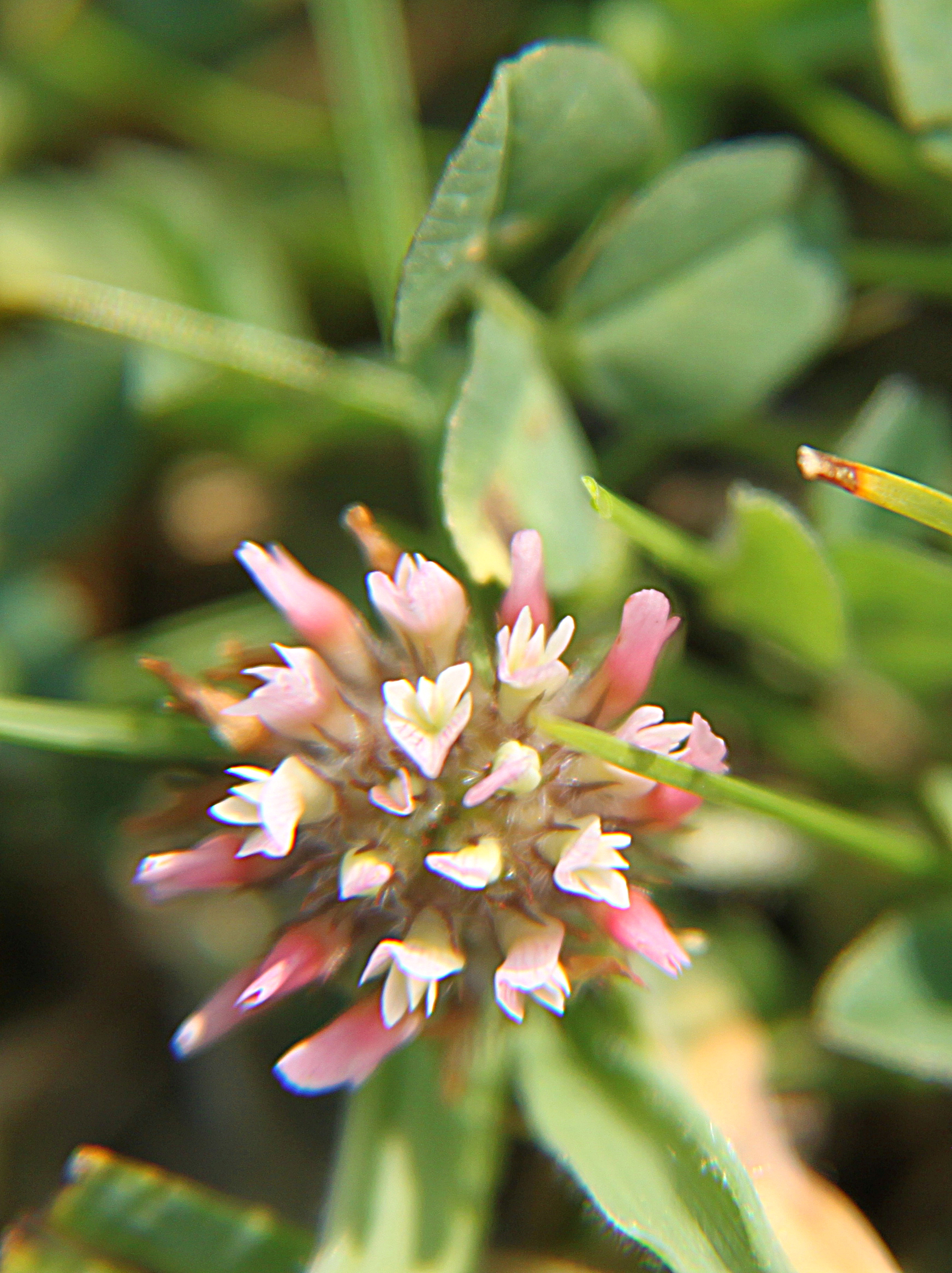 Flowering head of Trifolium fragiferum, photograped at the Hompelvoet, Grevelingenmeer, The Netherlands on 30 August 2015